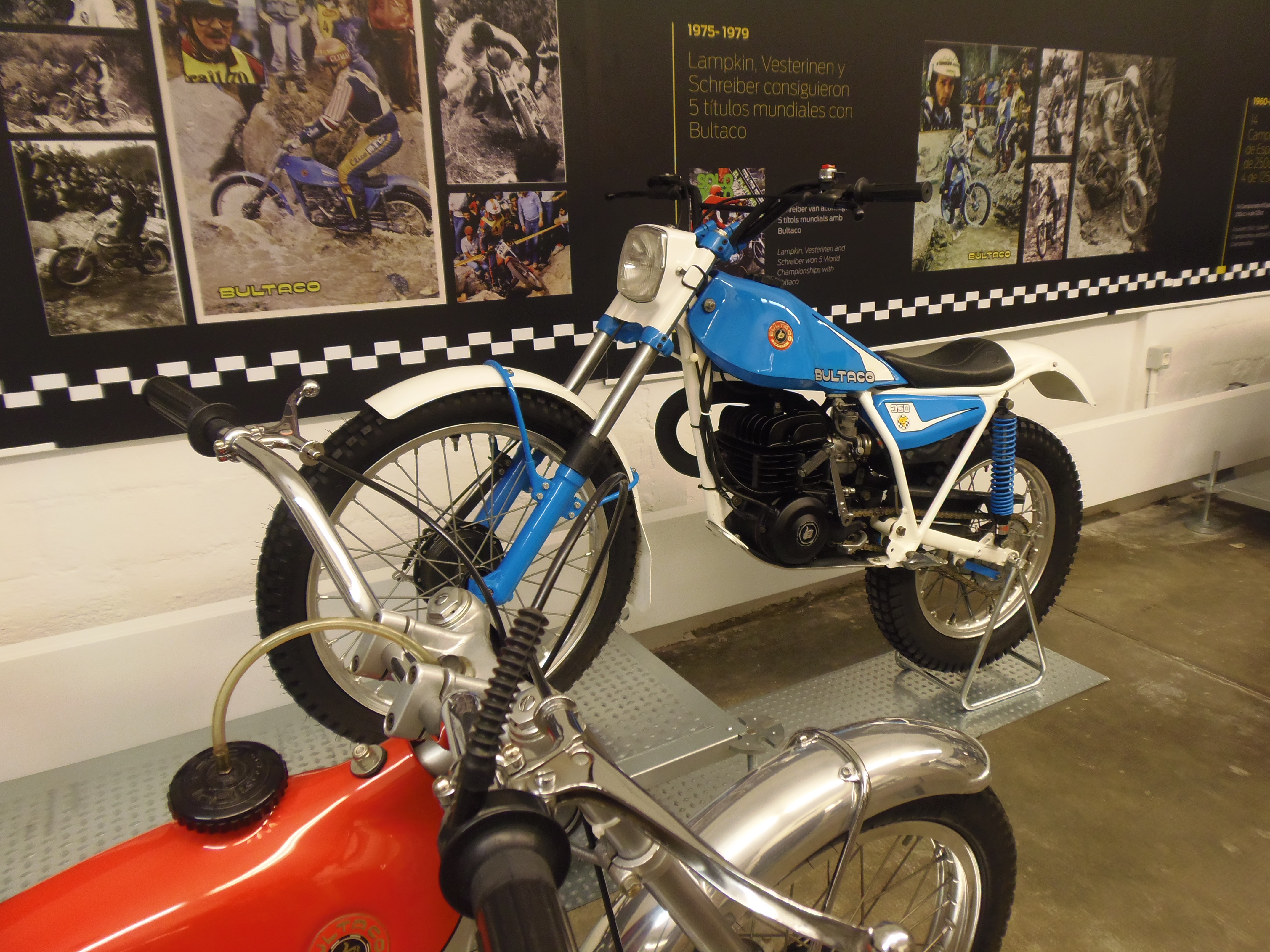 Bultaco Sherpa T Model 199B, 340 cc, 1981. The last Sherpa T as well as the last model made by Bultaco prior to their closing down.